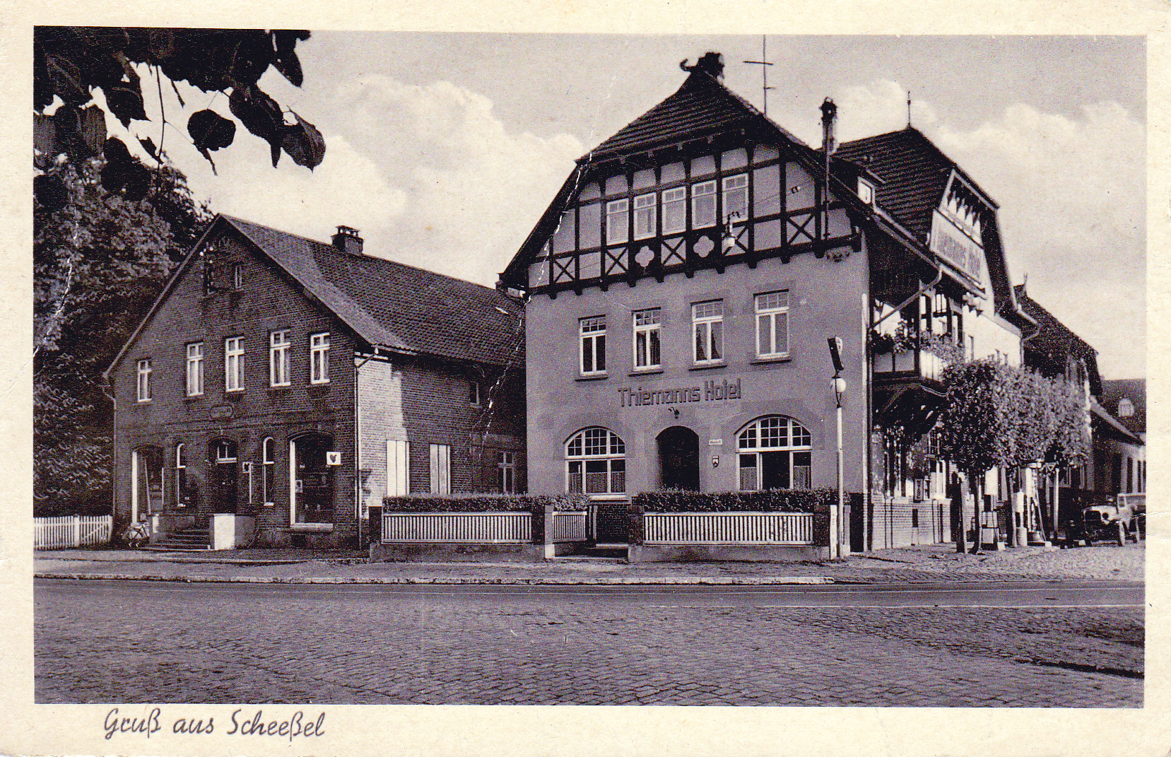 Postcard "Gruß aus Scheeßel",Germany,circa 1920-1930. Thiemanns Hotel. Publisher: Heinrich Volckmer, Scheeßel.